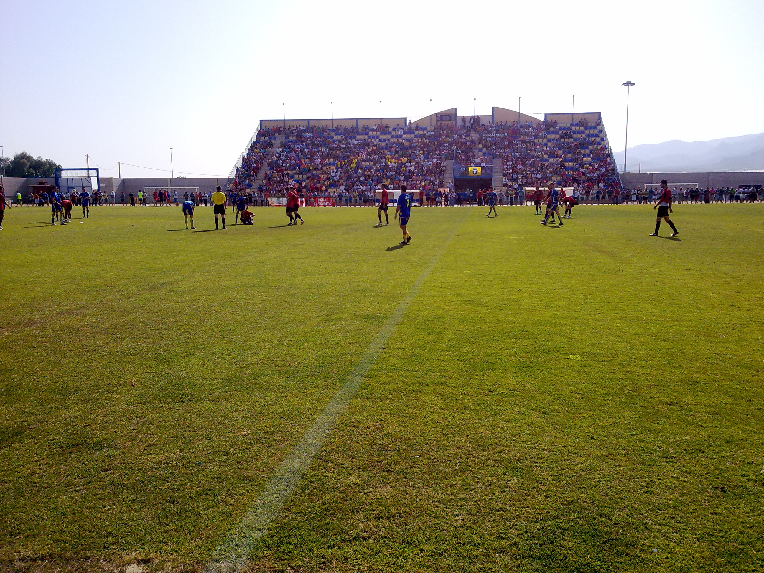 mi camara